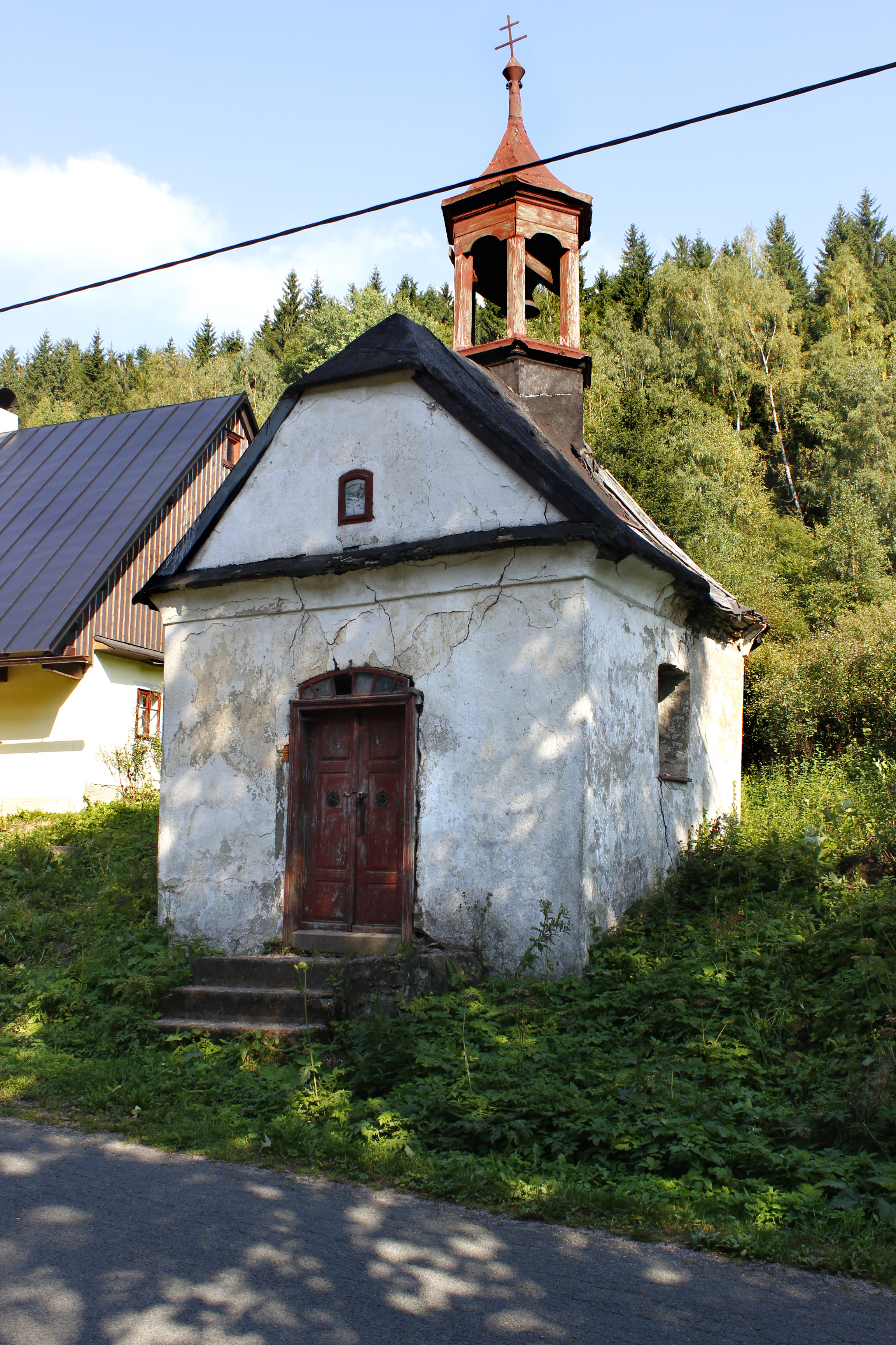 Small chapel in Zákoutí, part of Deštné v Orlických horách, Czech Republic